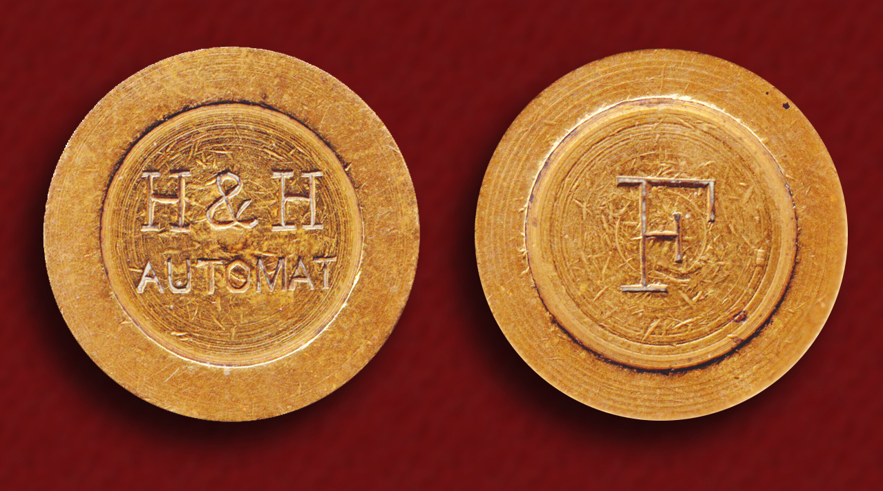 Horn & Hardart Automat brass "F" token. Source: "The Cooper Collections" (uploader's private collections)